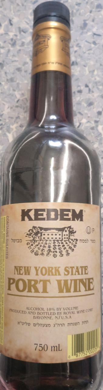 Bottle of Kedem brand New York State Port wine